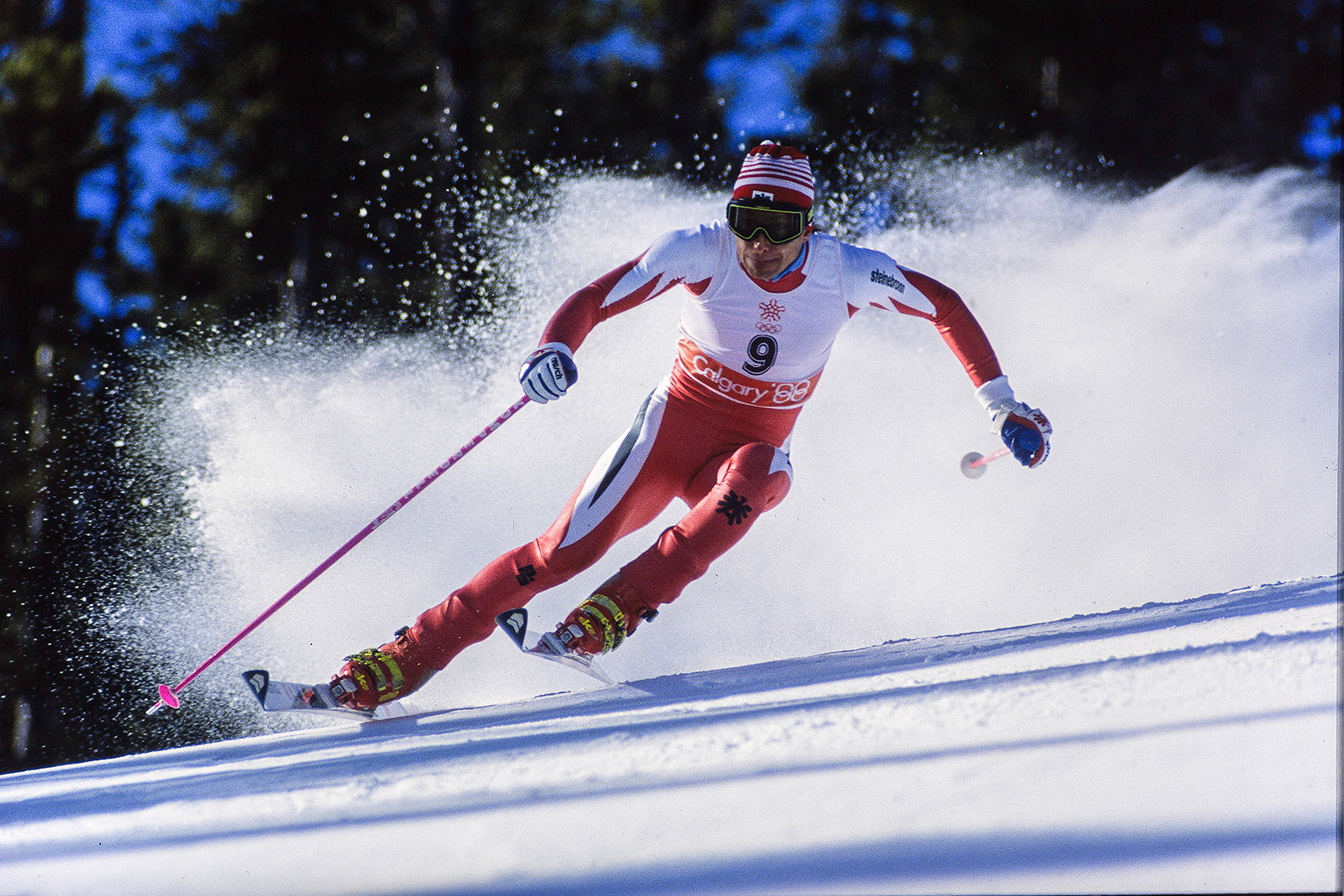 Hubert Strotz, 1988, during the Olympic GS in Calgary 1988